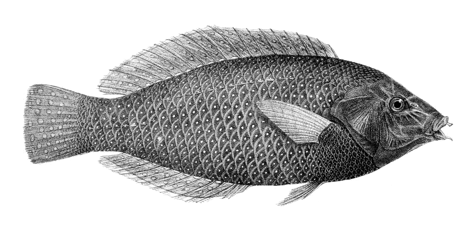 Anampses caeruleopunctatus Rüppell, 1829.